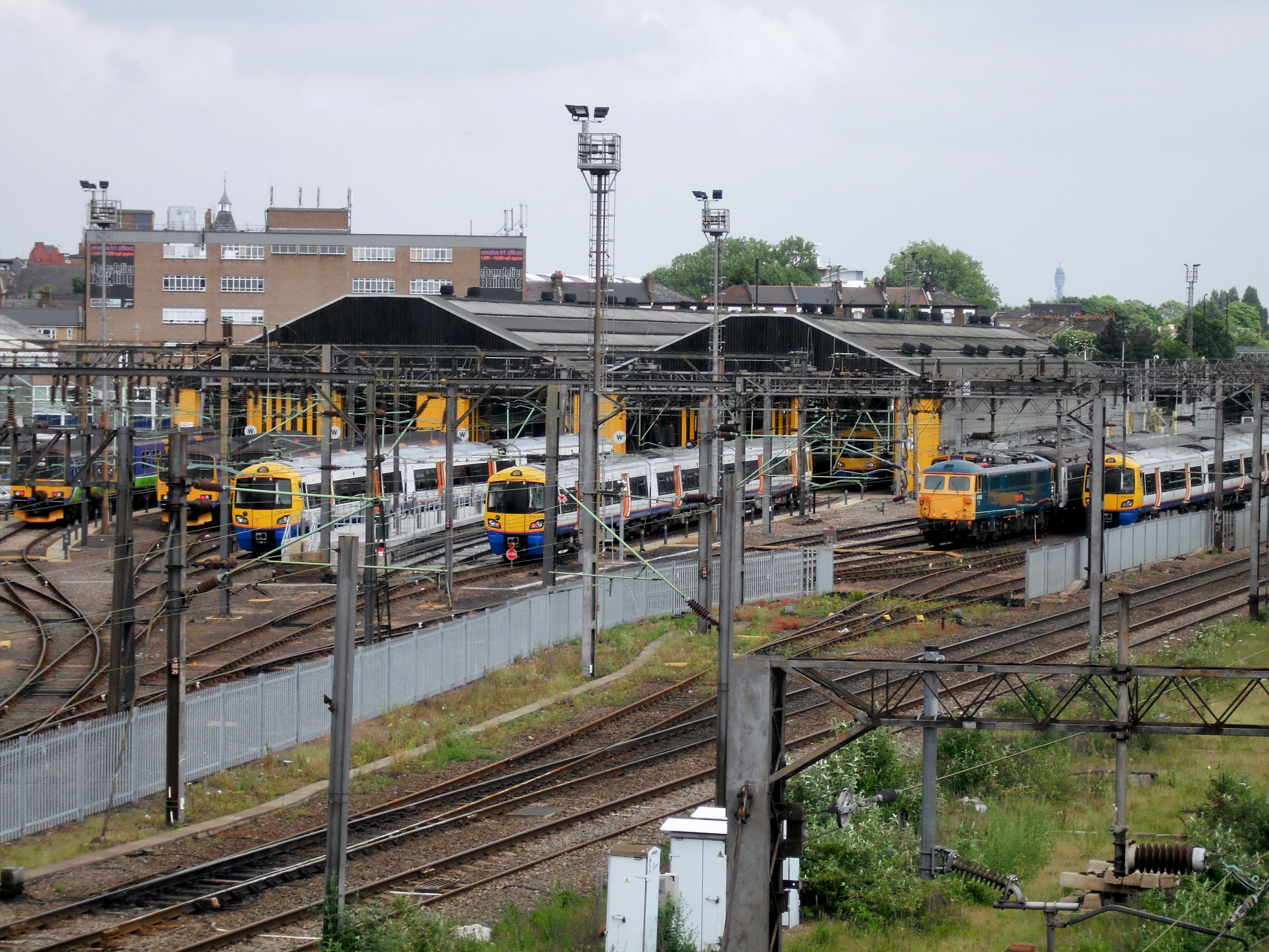 Willesden TMD, viewed from the footbridge across the line.